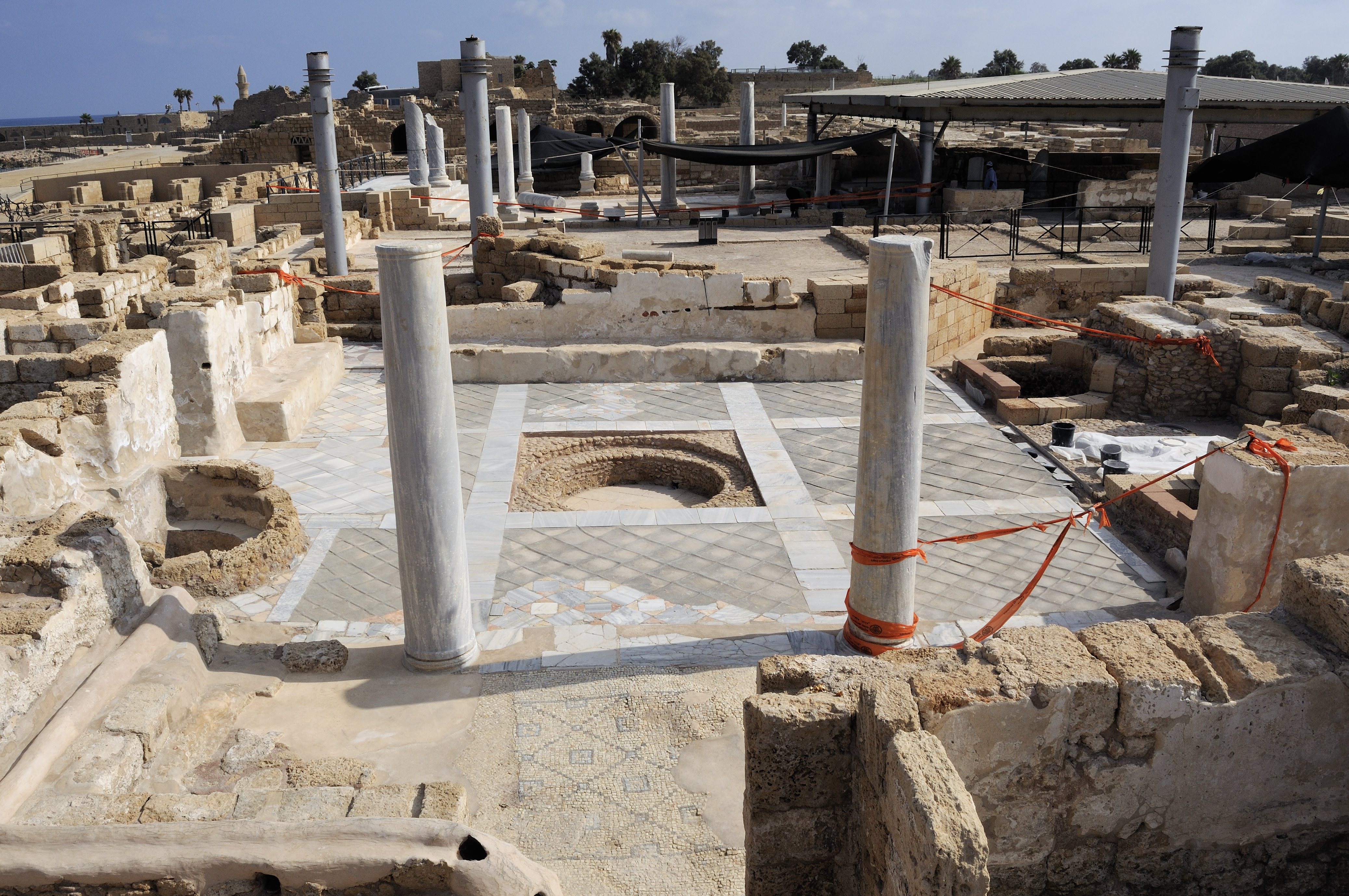 Picture taken in Caesarea Maritima national park.